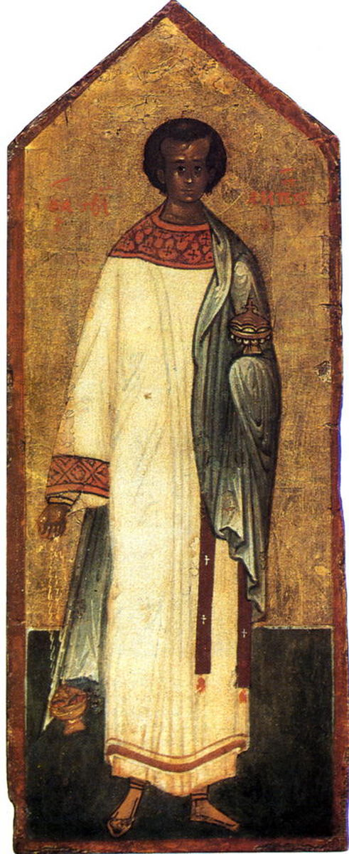 Icon of St. Philip the Diacon. Moscow